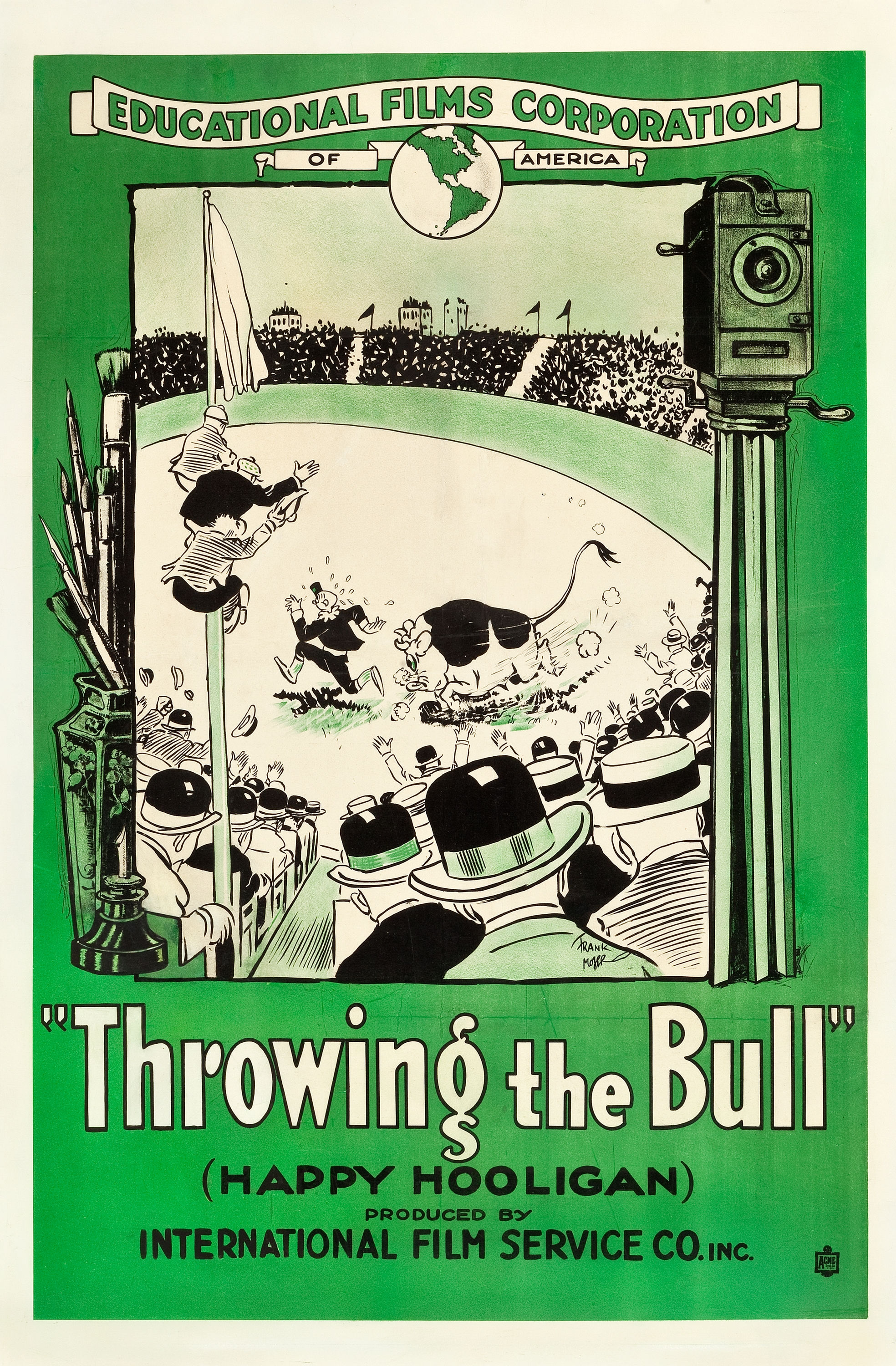 Poster for the 1918 film Throwing the Bull with comic character Happy Hooligan.